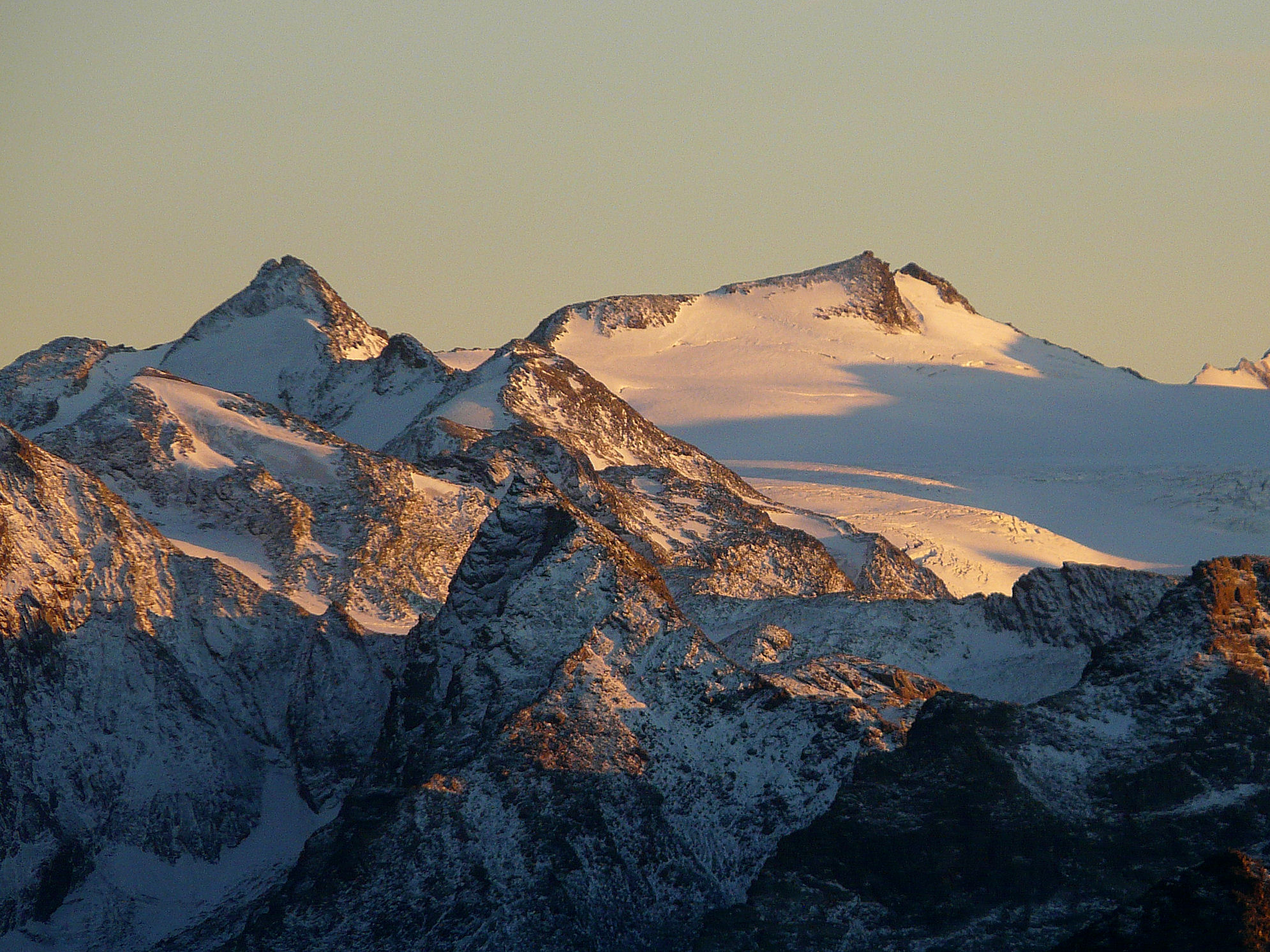 Doravidi and Testa del Rutor from NW.